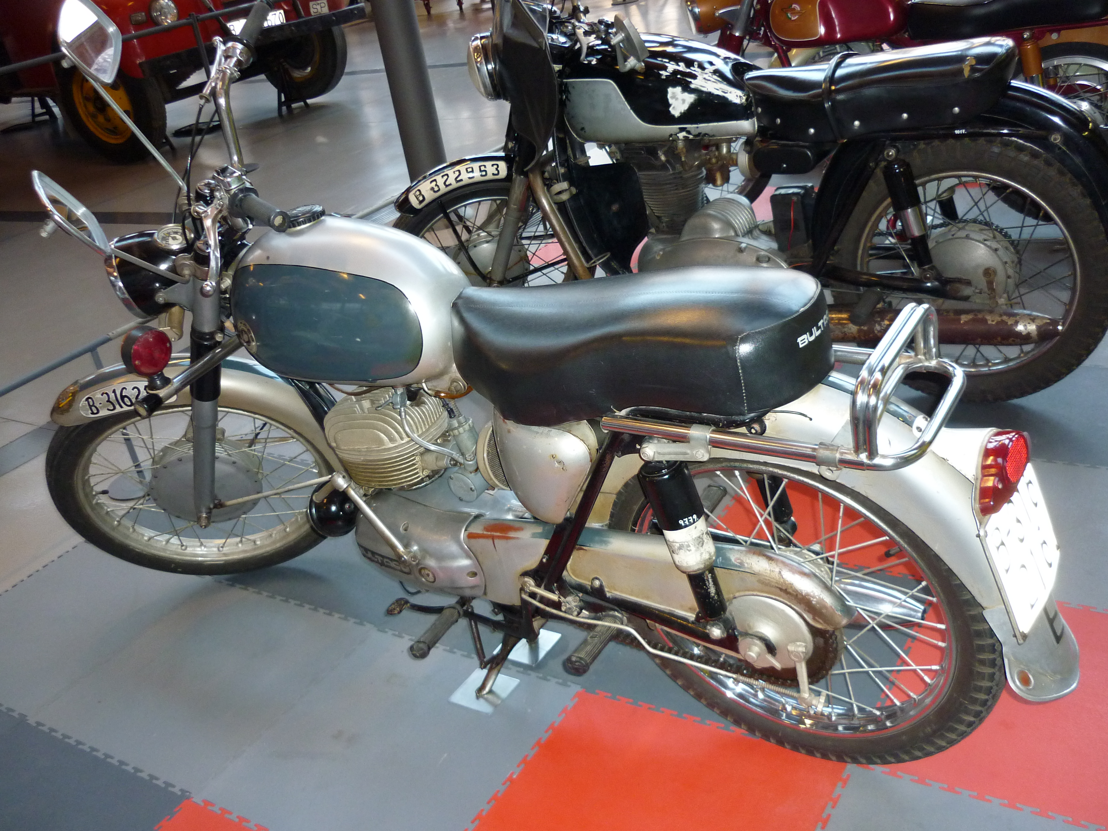 Bultaco 200 196cc (1962)